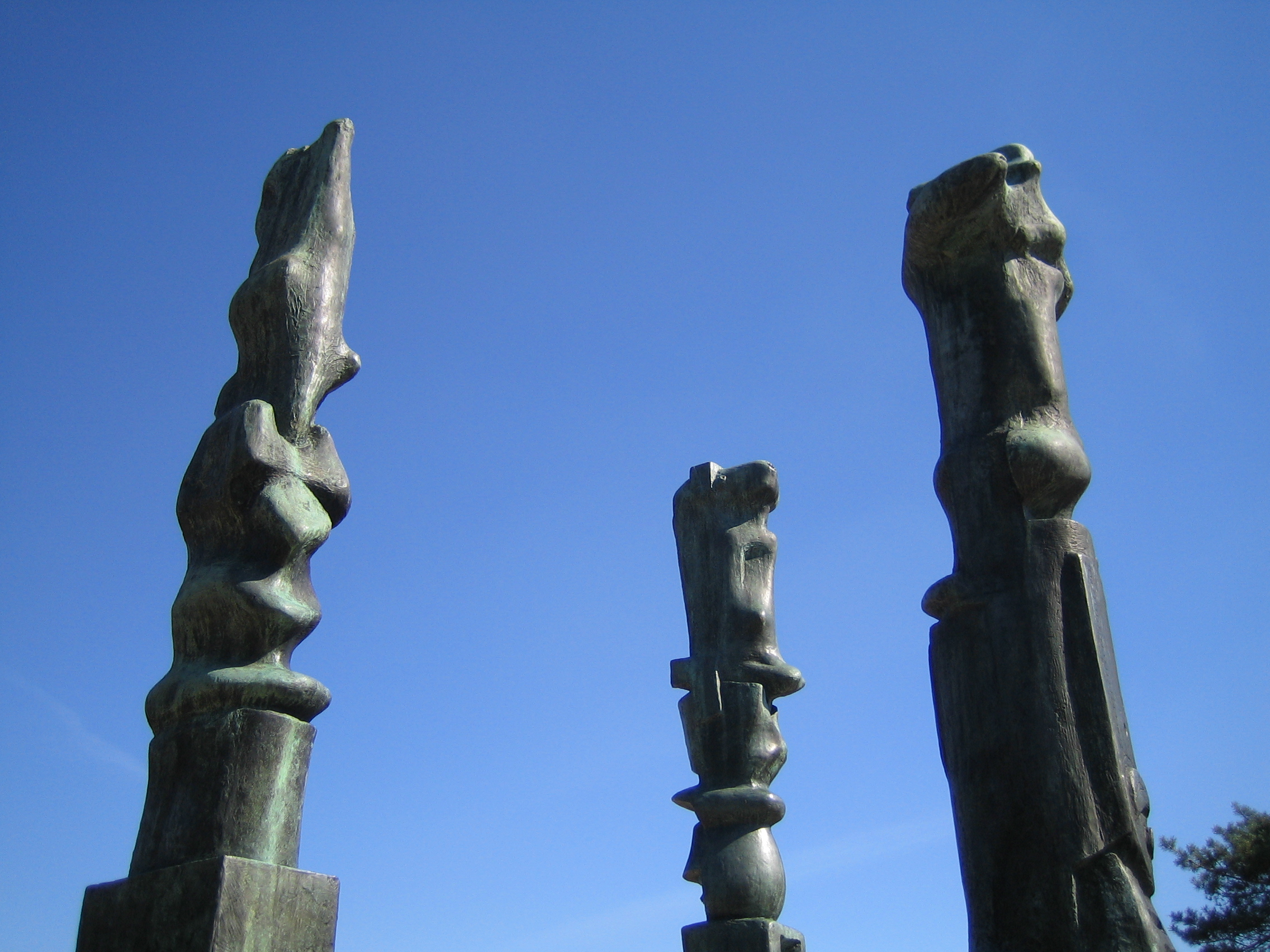 sculpture Three upright motives (1955/1956) by Henry Moore in Nat. park Hoge Veluwe in the Netherlands